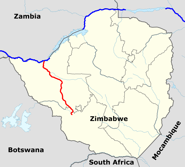 Gwayi River course in Zimbabwe. Zambezi blue, Gwayi red.